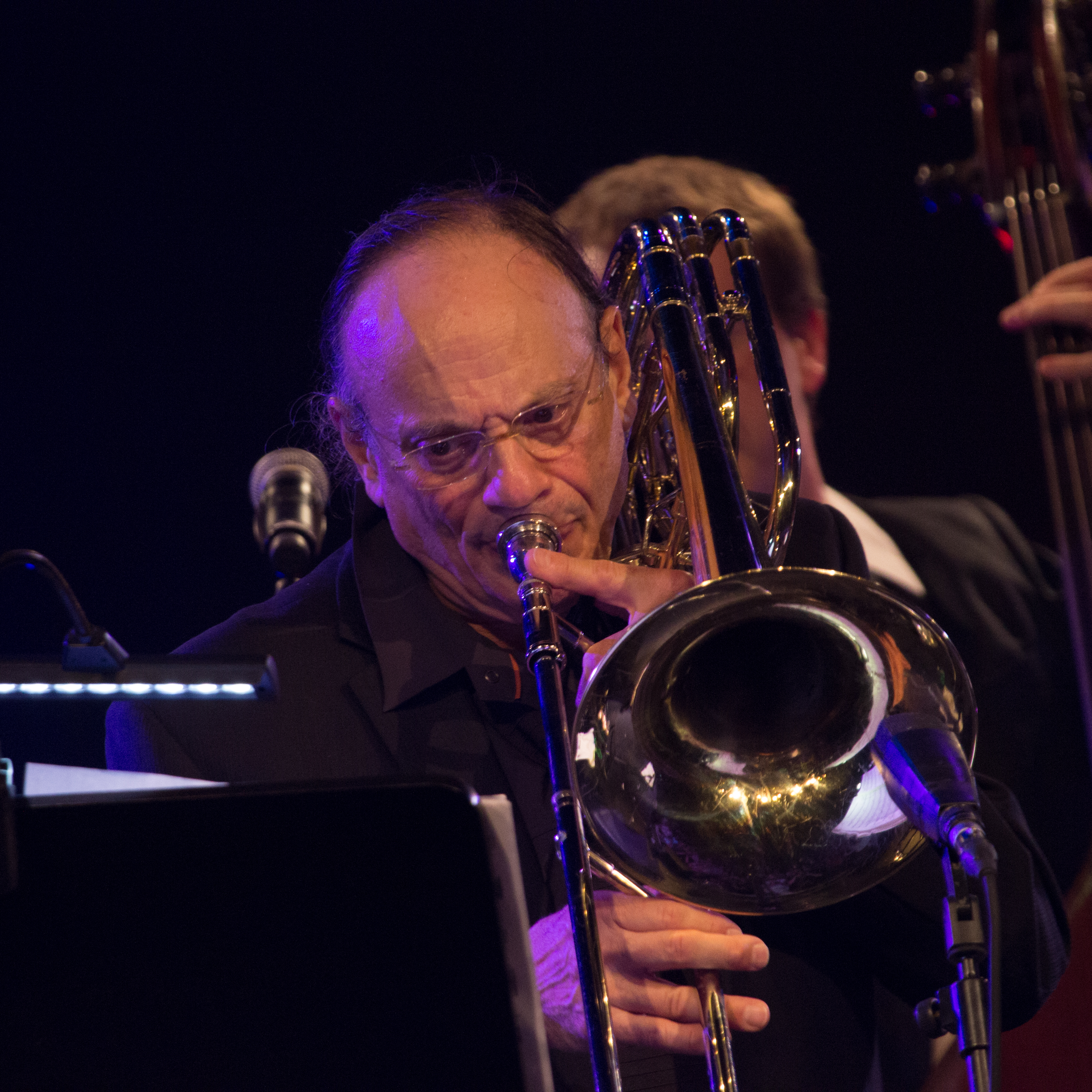 Dave Taylor, american trombonist